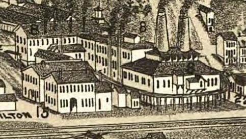 Belmont Glass factory portion of H. Wellge's 1882 drawing called "Bird's eye view of Bellaire, Ohio" as found in the Library of Congress